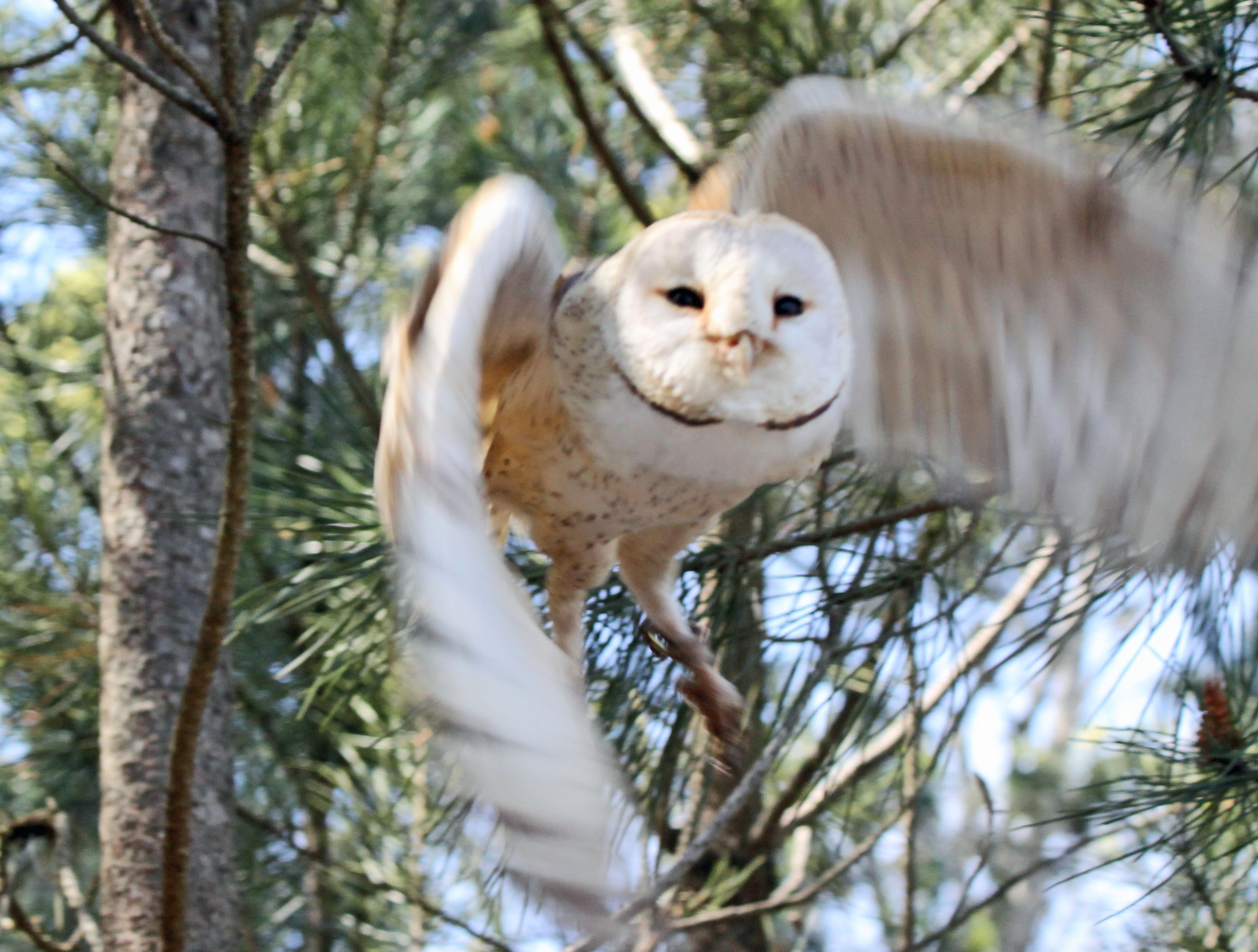 Barn Owl (Tyto alba) at Eagle Encounters, South Africa